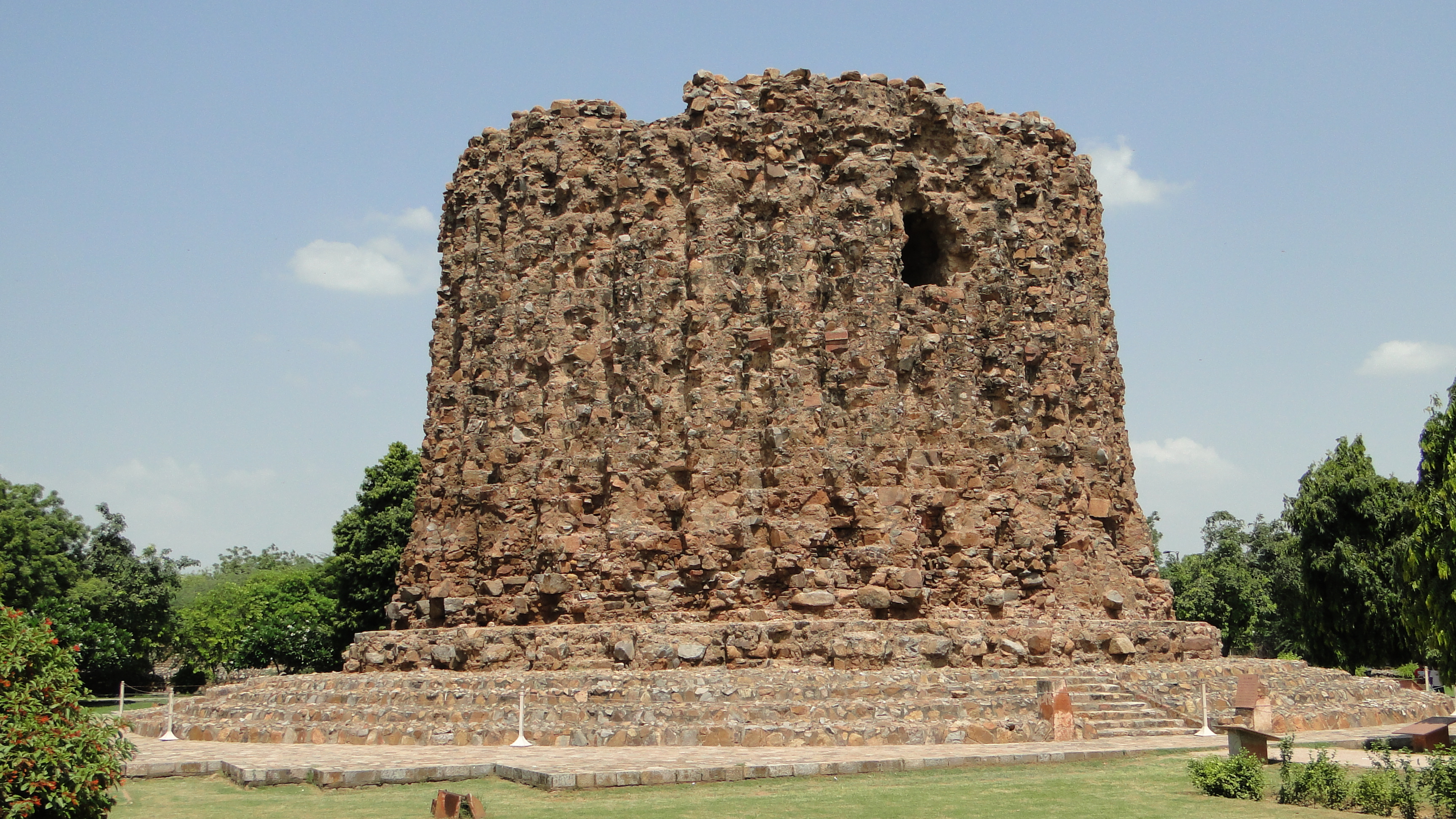 Alai Minar in Qutab Minar complex, Delhi